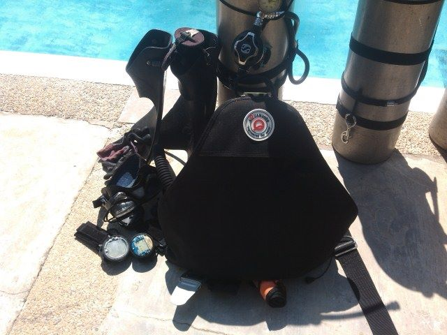 Triangle sidemount wing design, originating from the British / Mexican Cave school of sidemount diving.